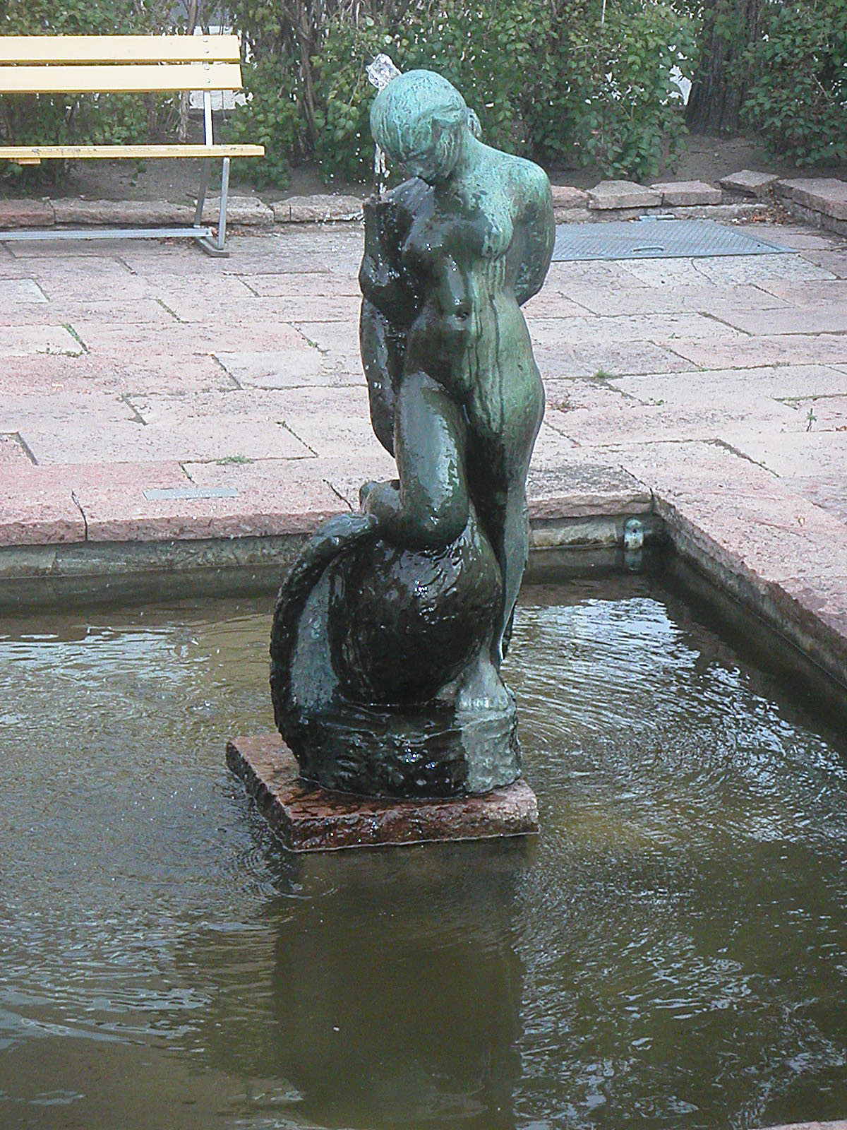 Public fountain Leda och svanen by Helge Högbom. The fountain is located in central Eslöv, Sweden.